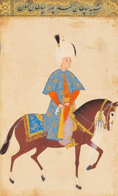 Şehzade Ahmed I (Sultan Ahmed I later) in his youth.